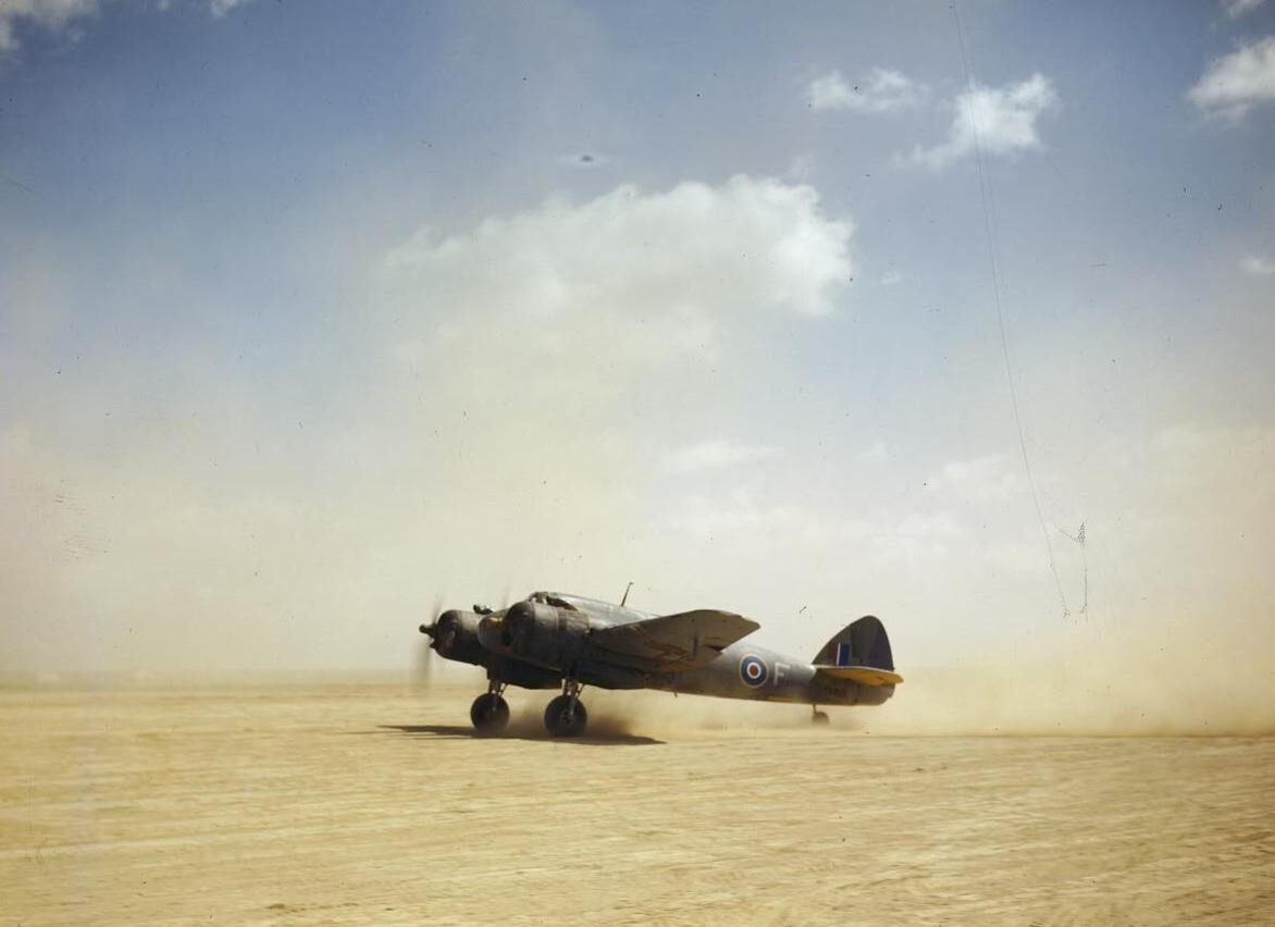 Pushing up a cloud of dust, Bristol Beaufighter IF V8318 'F-Freddie' of No 252 Squadron, Royal Air Force moves out at Magrun, North Africa.